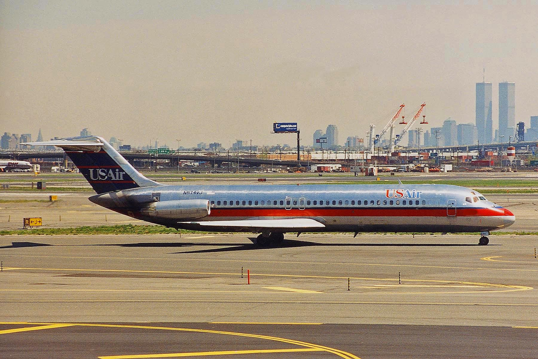 A picture of an airplane